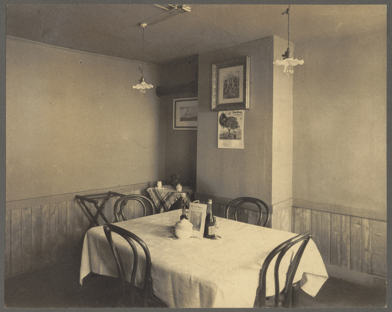 Accession No.: 07_10_000006 Cab. No.: Cab 23.58.1 Title: Tea Room, Hancock Tavern Date: 1898 (approximate) Genre: Photographs Description: The Hancock Tavern was located on Corn Court. 1898 calendar on the wall. BPL Department: Print Department